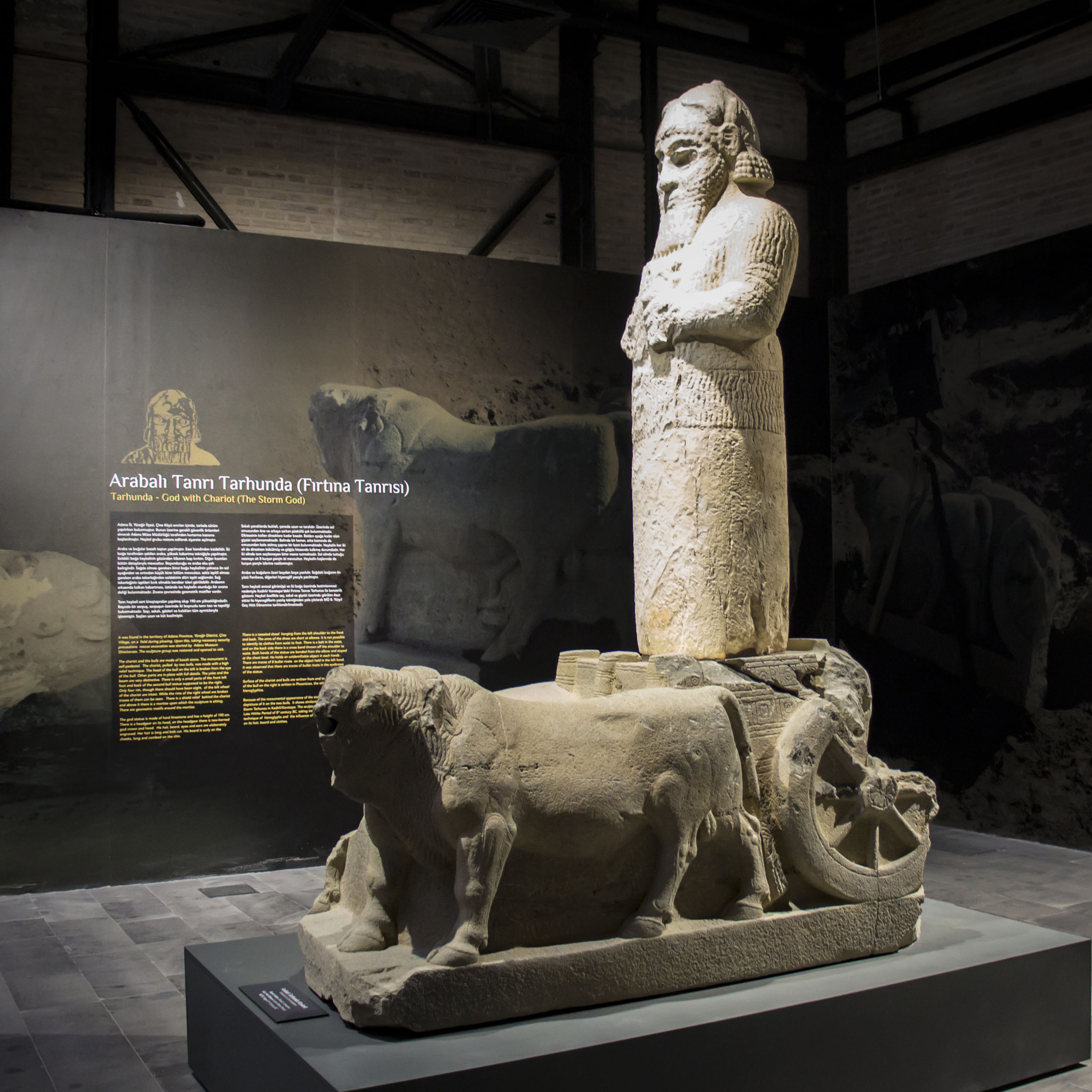 500px provided description: Tarhunda